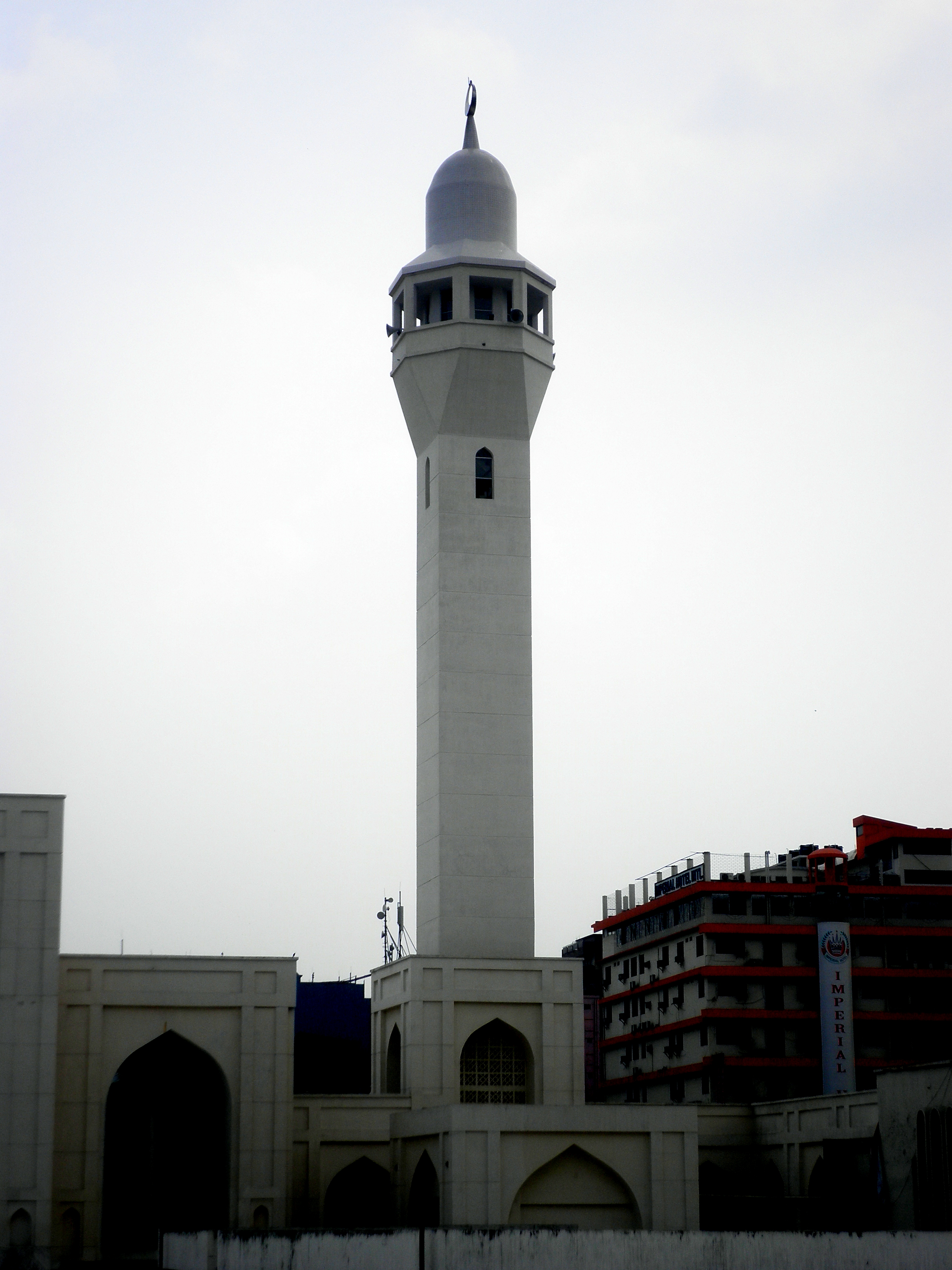 New extension of Masjid